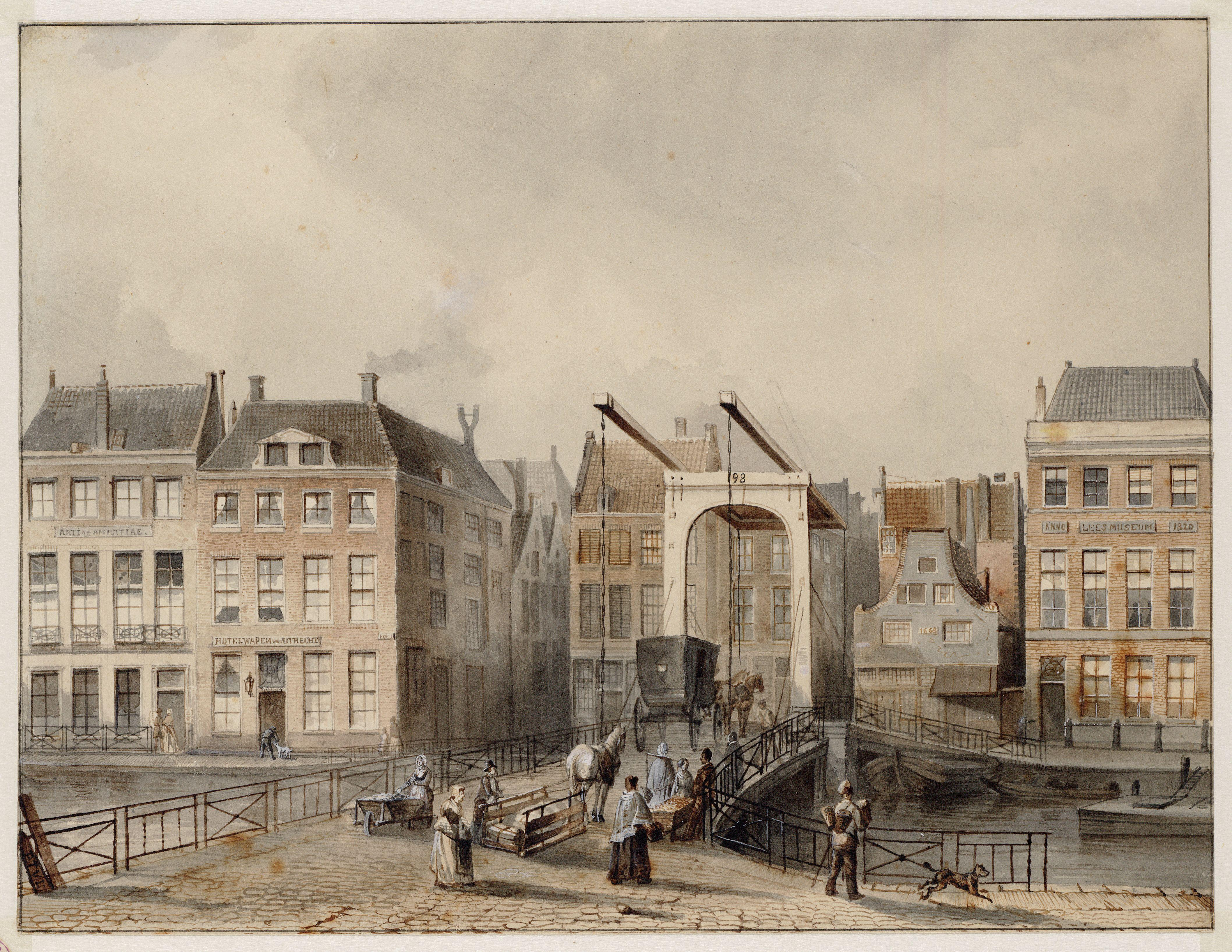 Pierre Tetar van Elven. Langebrug, Rokin, Amsterdam. 1847. Ink and watercolour on paper (?). Amsterdam, Stadsarchief Amsterdam (inv.nr. 010001000711).